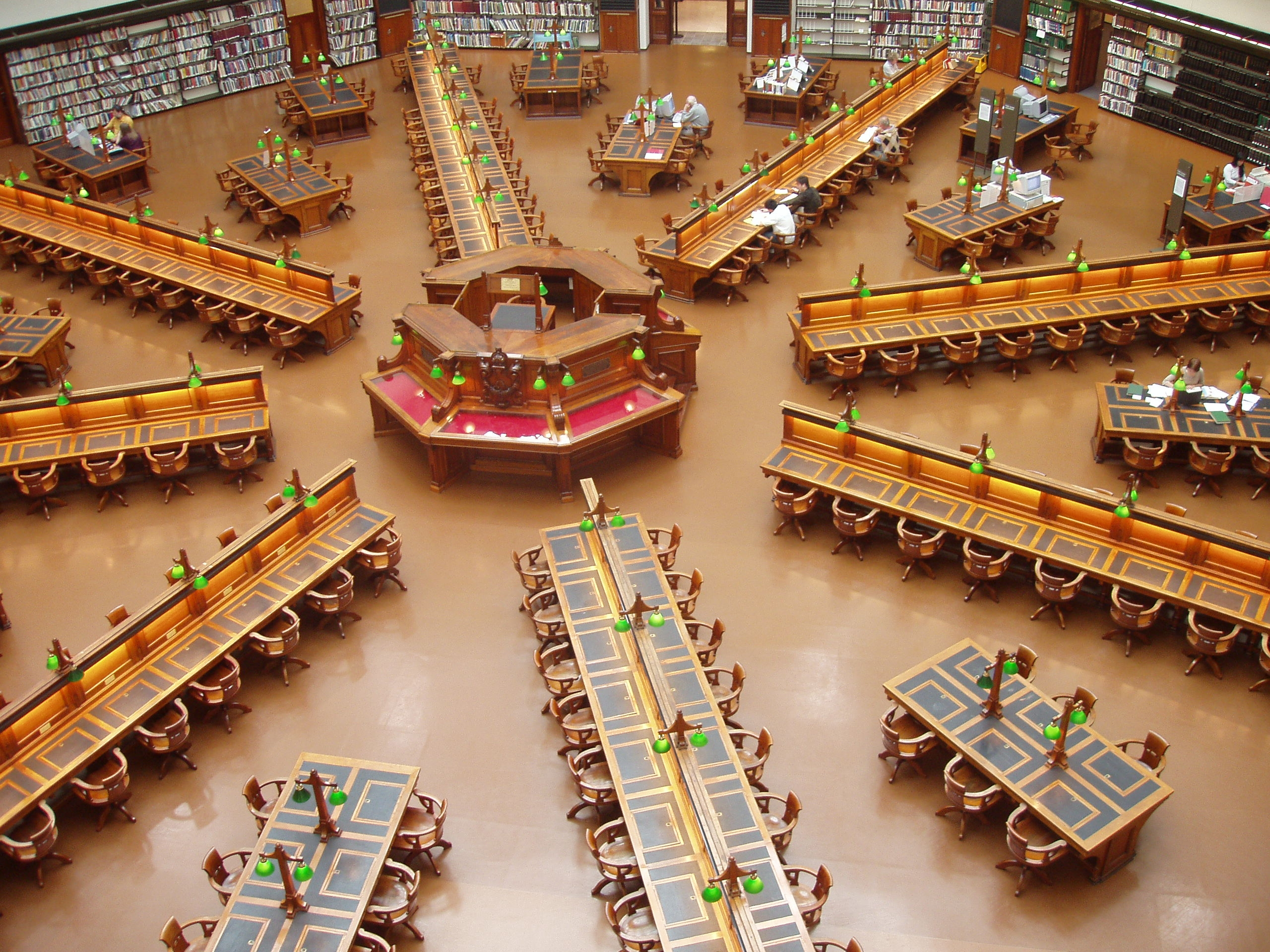 Reading room of the State Library, Melbourne, Australia. Photograph taken by me.